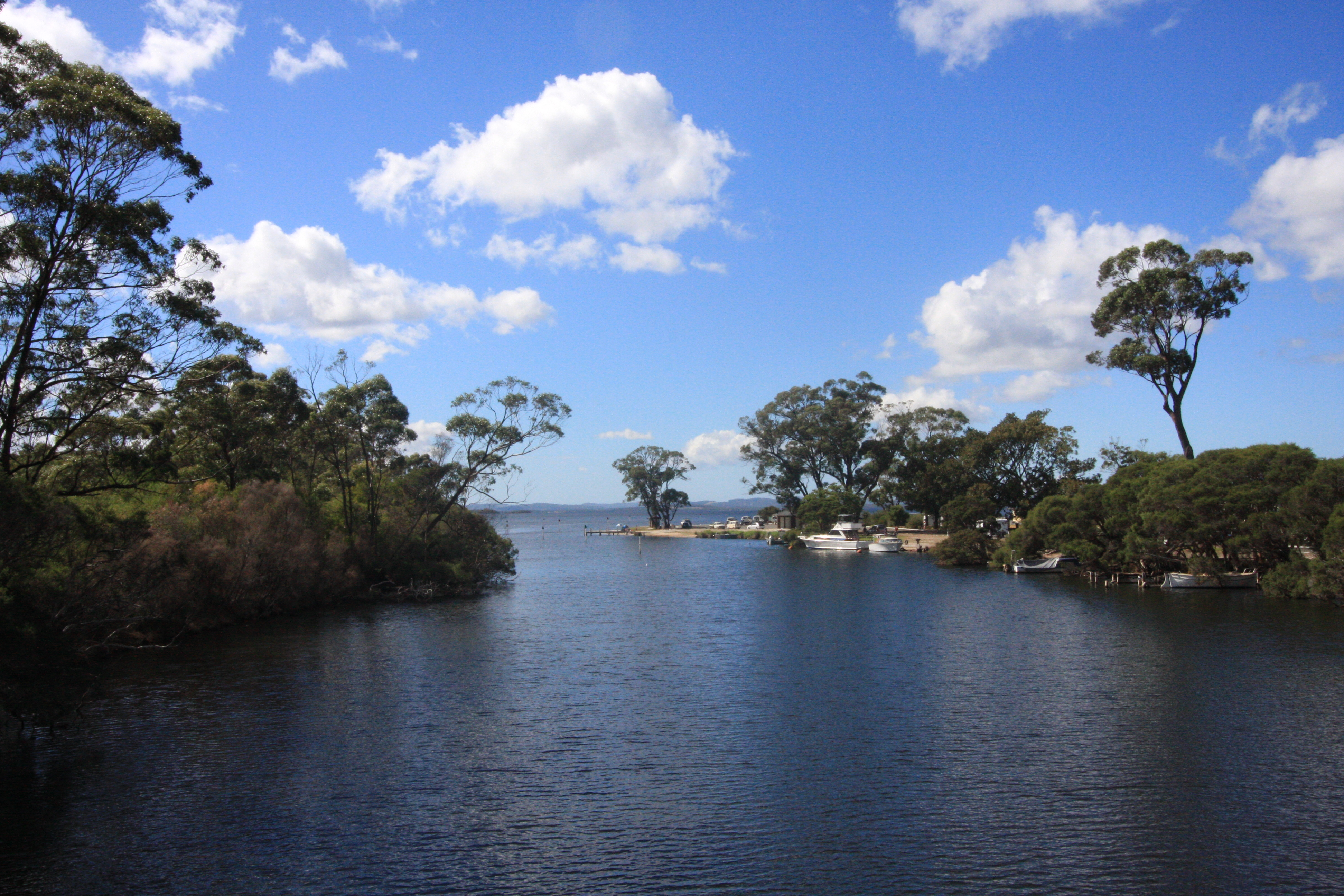 Denmark River mouth from the Heritage Rail Trail Bridge as it empties into the Wilson Inlet in Denmark, Western Australia, the heart of the Rainbow Coast.